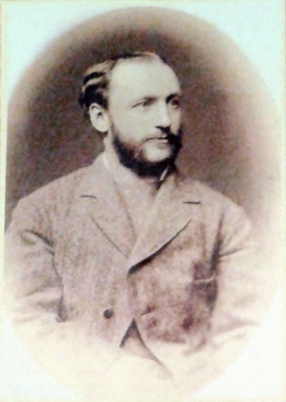 Karol Móry (1845 - 1921) was a civil engineer and architect - a native of Bánská Bystryce. He was founder of artificial lake - New Štrbské Pleso, Móry's settlement, Mory's hotel and lookout tower.